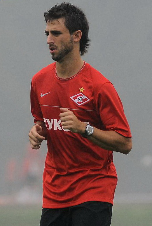 Nicolás Pareja